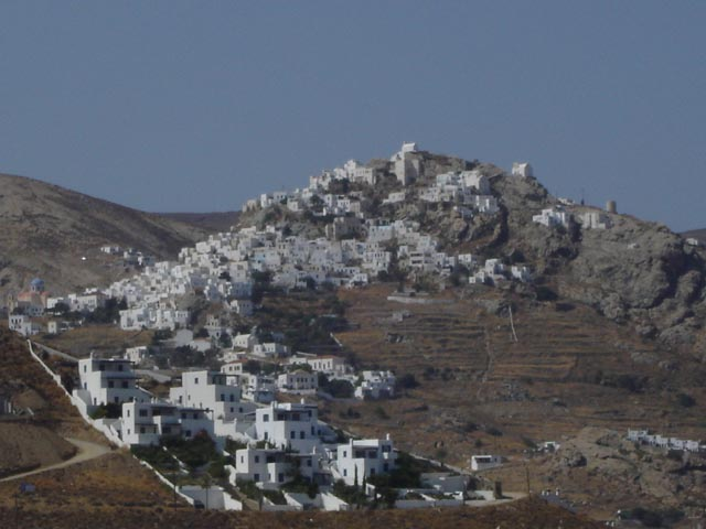 View of Serifos Chora